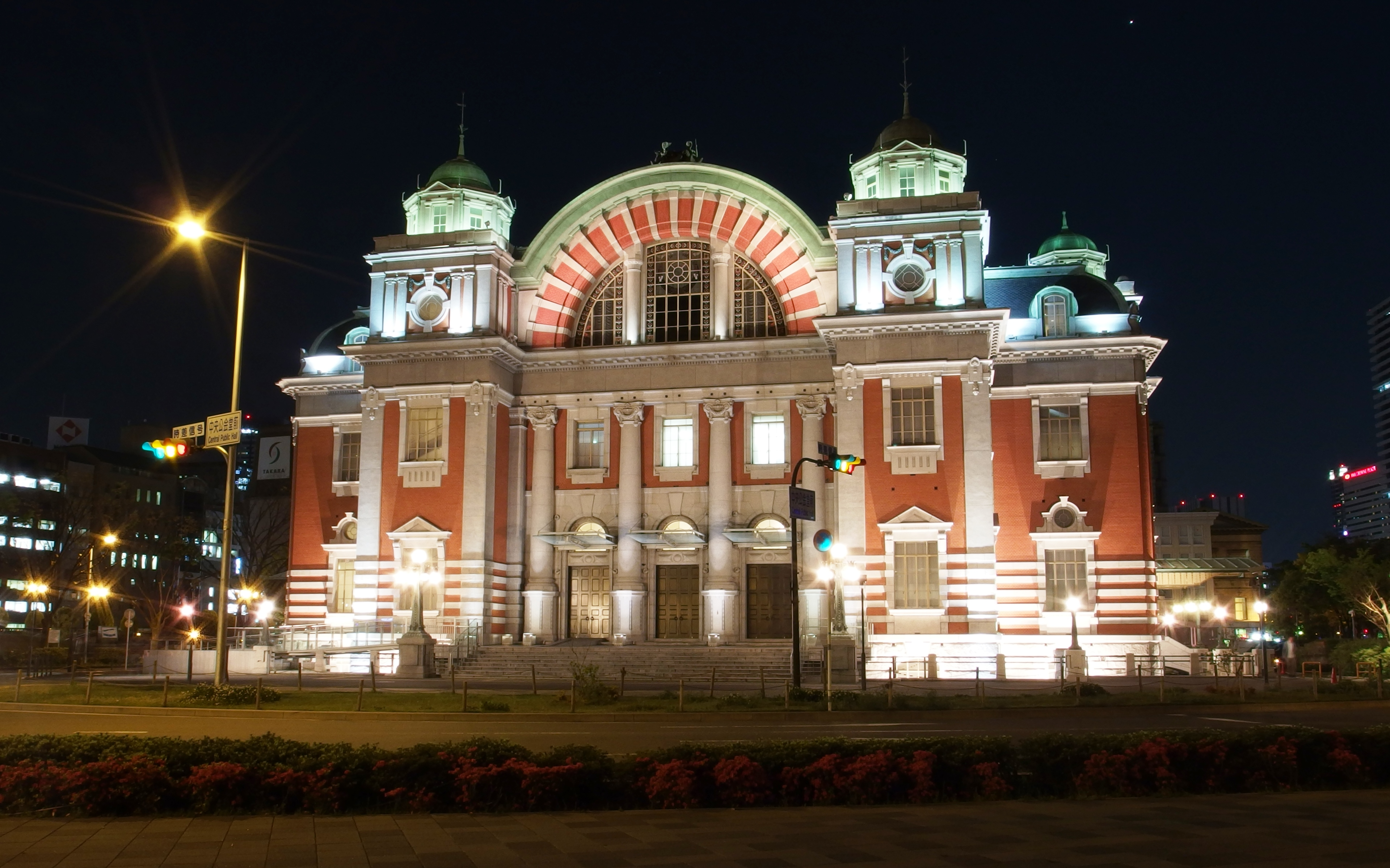 Osaka Central Public Hall in Osaka, Osaka Prefecture, Japan